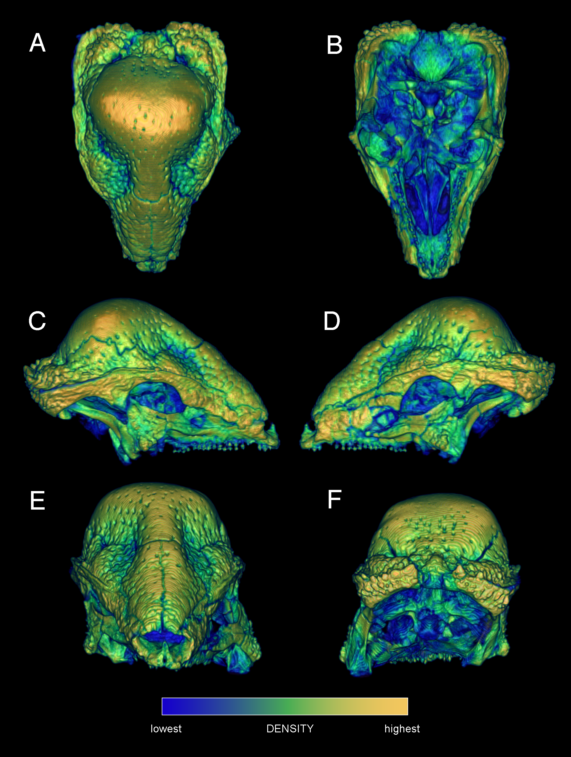 Figure 1. Relative surface densities of cranial bone in Stegoceras validum (UA 2). External densities of the cranium of Stegoceras validum, in dorsal (A), ventral (B), lateral (C, D), anterior (E) and posterior (F) views. Note high densities of cranial ornamentation, and numerous neurovascular canals (correlates of a keratinous pad) exiting onto the cranial roof.